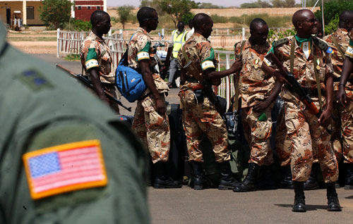 Original caption states: U.S. Air Force Maj. Gen. Michael C. Gould, 3rd Air Force Commander, watches as Rwandan troops prepare to board a C-130 to Rwanda at El Fasher, Darfur, Sudan, July 21, 2005. The United States is providing transportation for 1,200 Rwandan forces to Sudan in support of the African Union Mission.